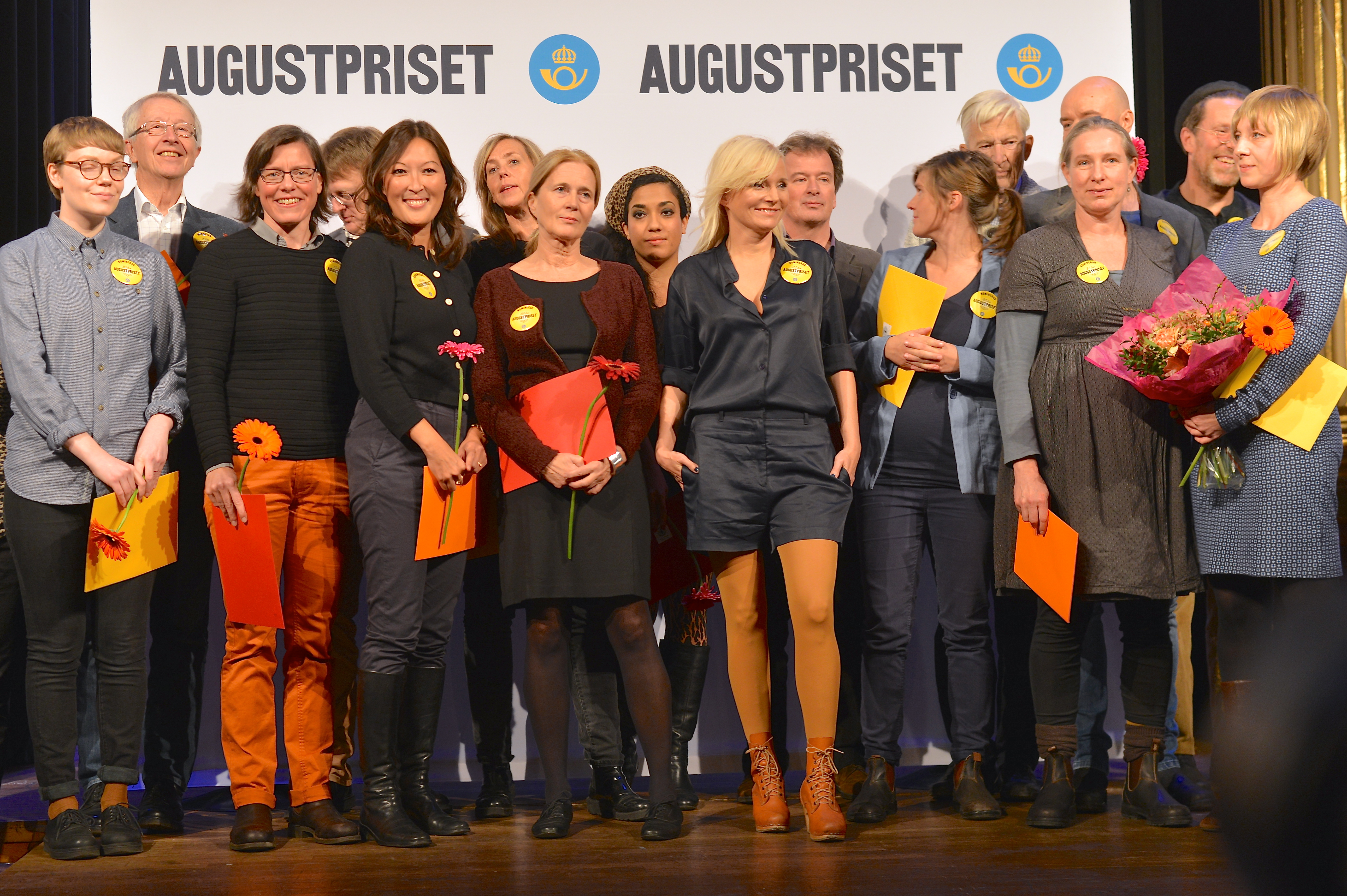 The nominees for the August Prize 2013 on October 21, 2013.